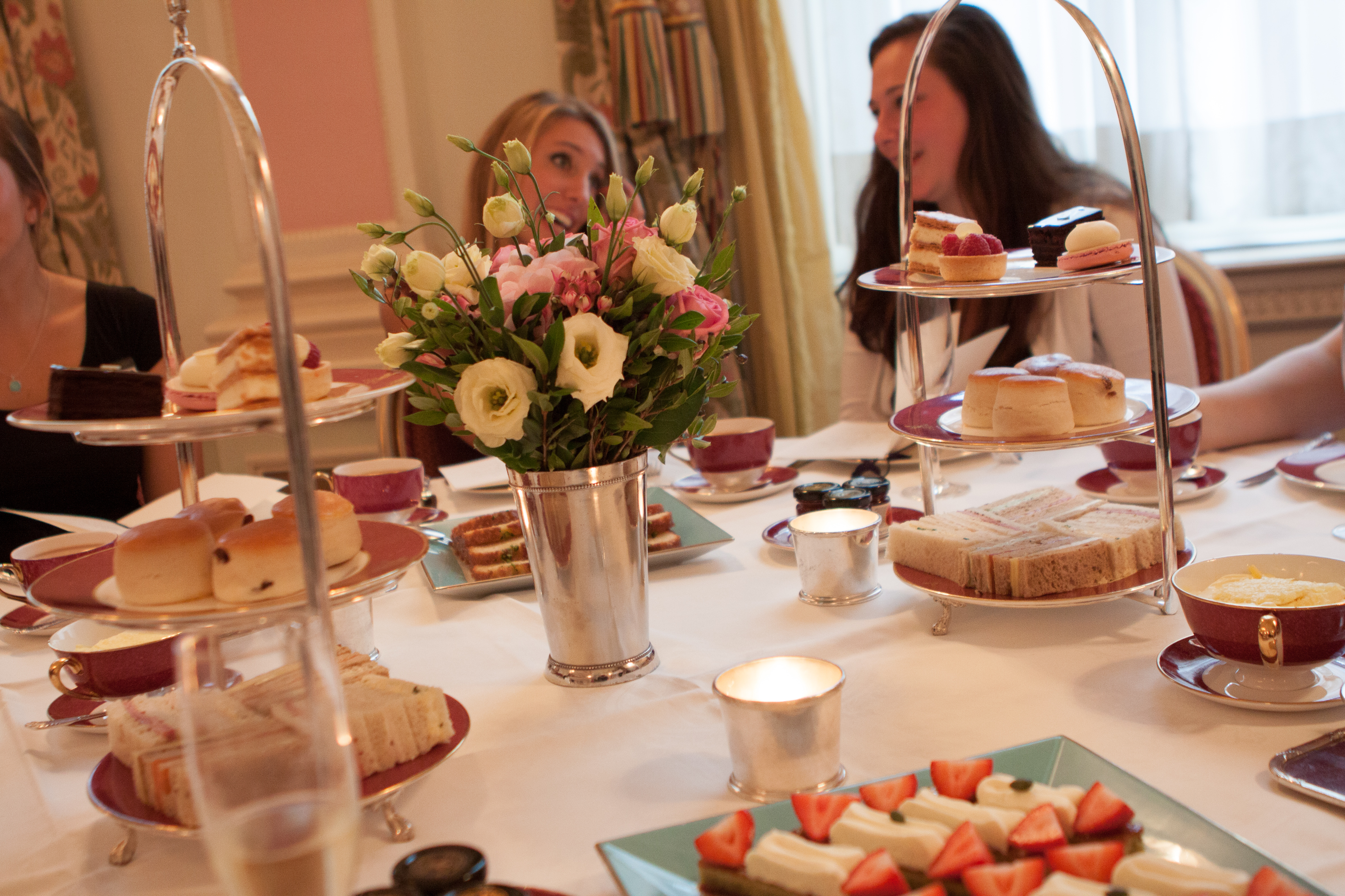 Union College at the Ritz, London